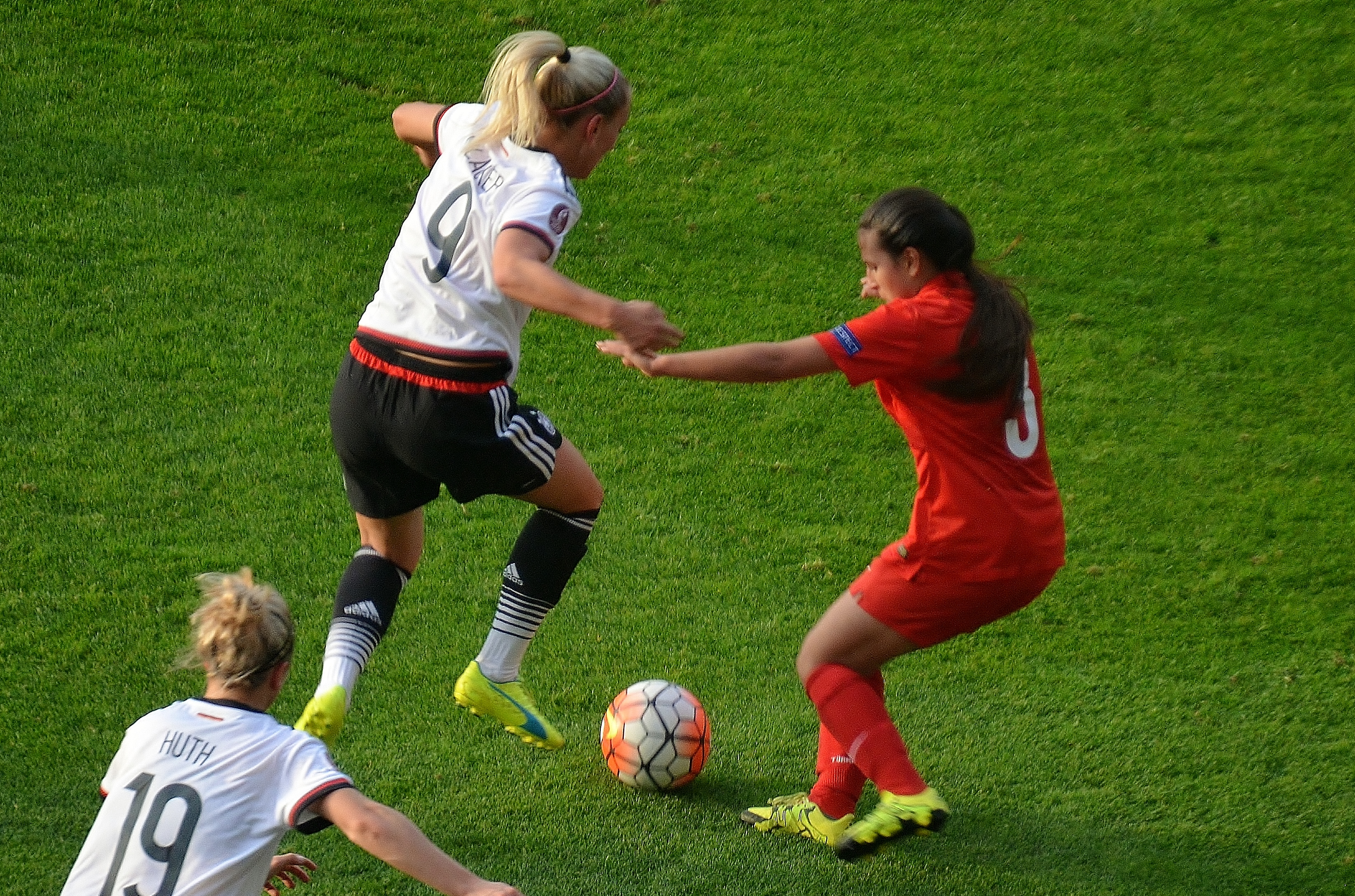 Bahar Güvenç playing for Turkey women's national at the UEFA Women's Euro 2017 qualifying Group 5 match against germany in Istanbul, Turkey